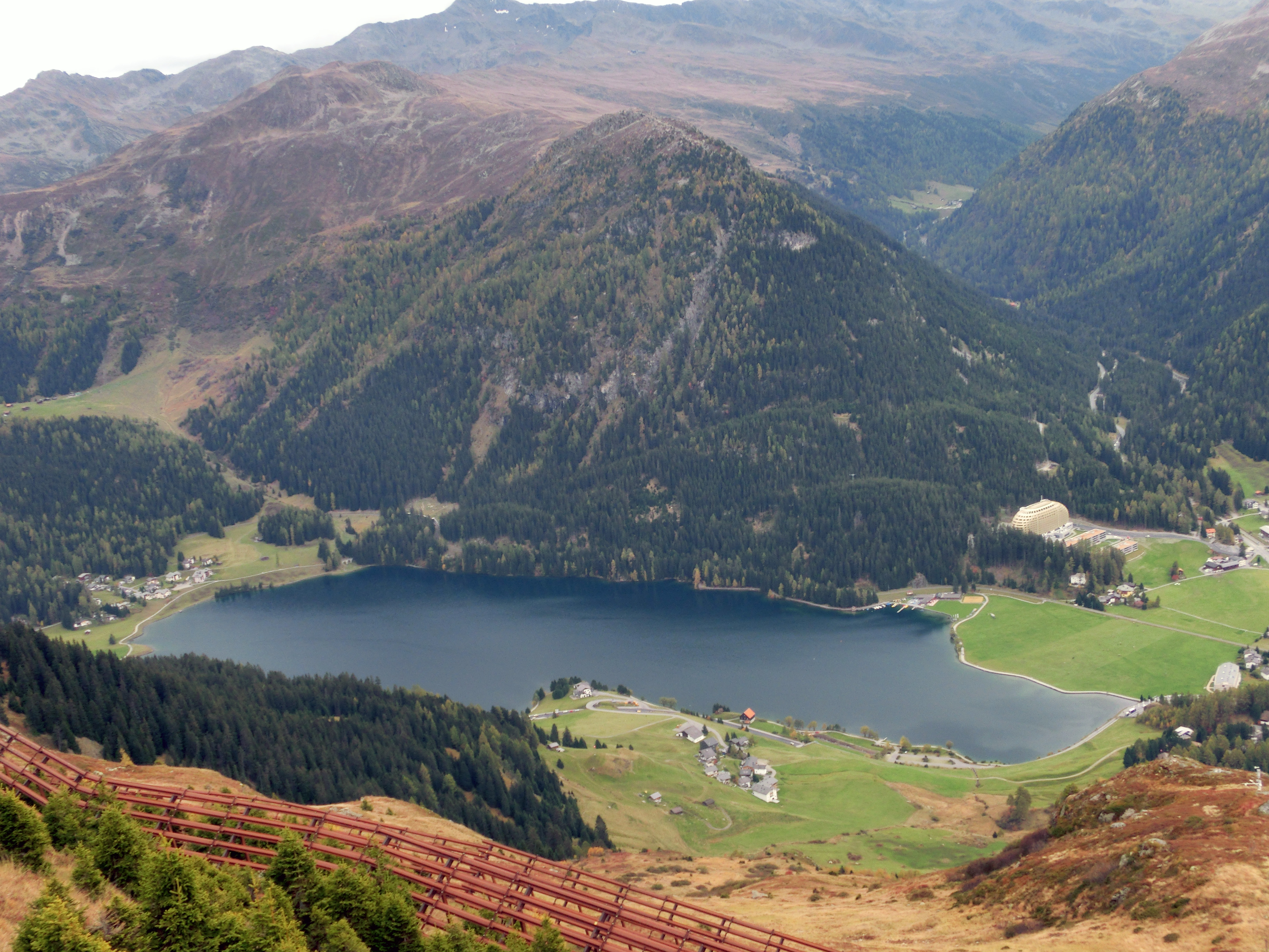 Lake Davos and Seehorn, picture taken from Dorfberg above Davos, Grison, Switzerland